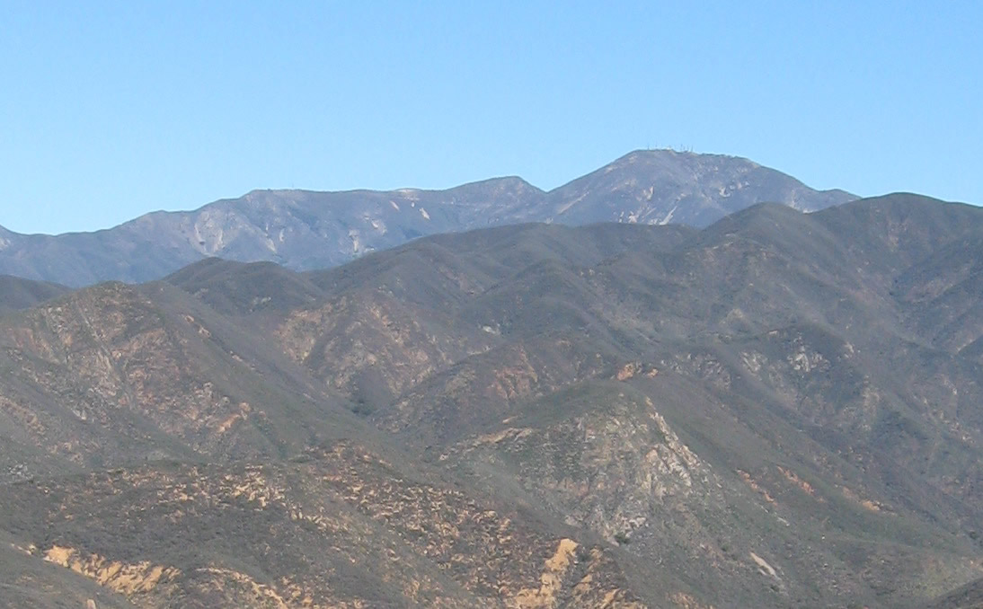 Santiago Peak's south slopes, seen from above San Juan Canyon on the Sitton Peak Trail, in the Santa Ana Mountains, Southern California.